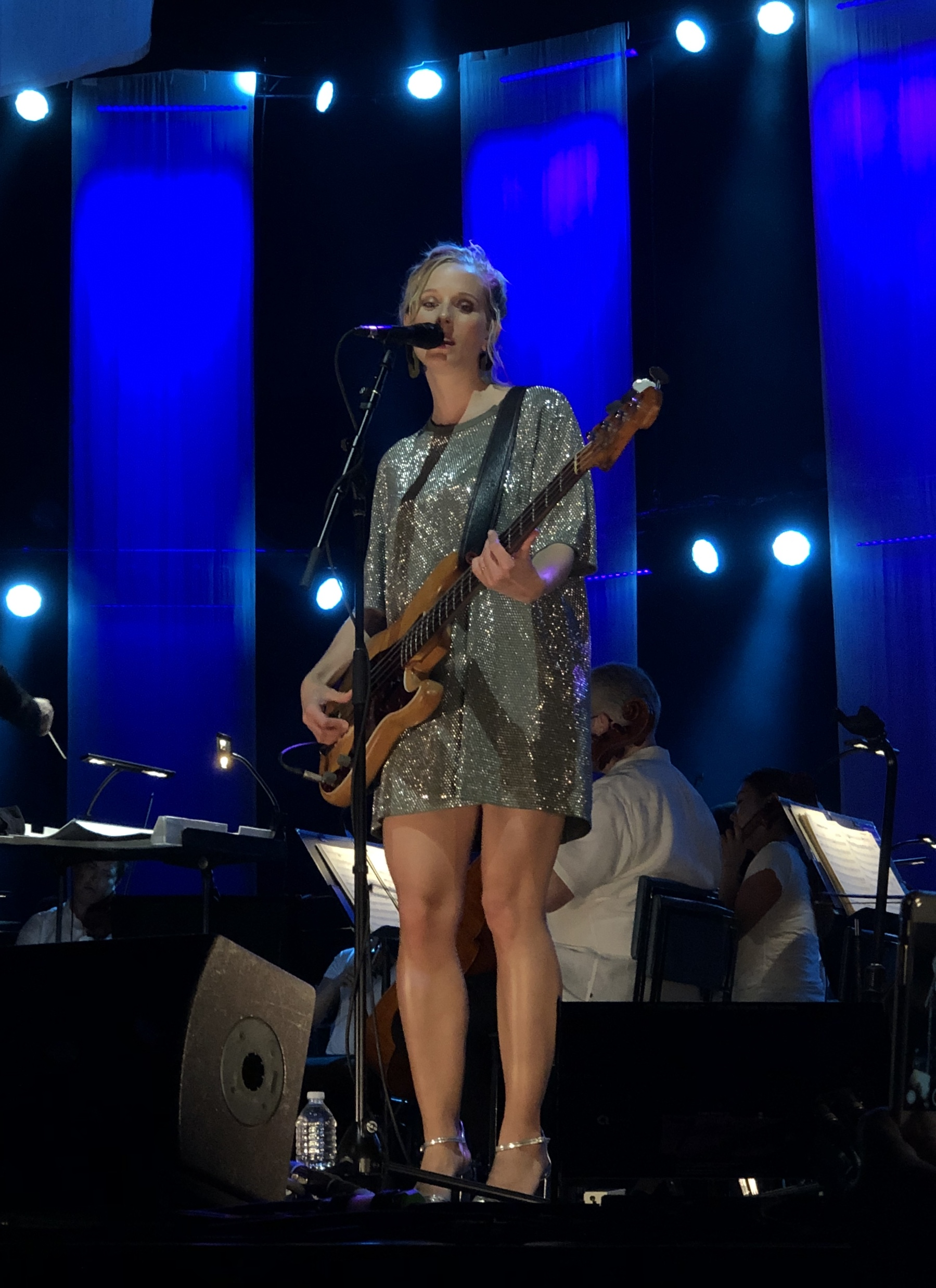 Melissa McClelland at Wolf Trap National Park For The Performing Arts, 2019, backing up Sarah McLachlan